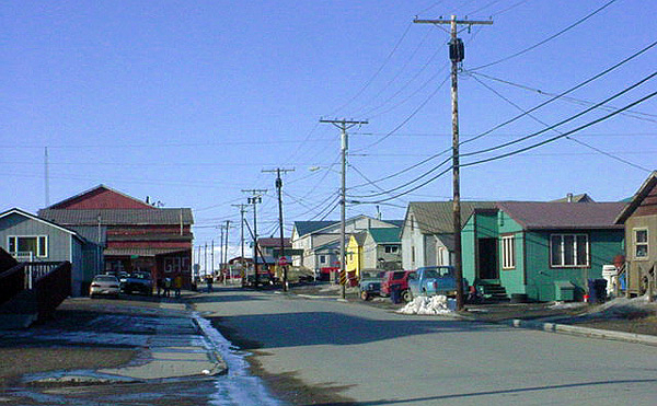 Downtown Nome, Alaska, in May 2002.